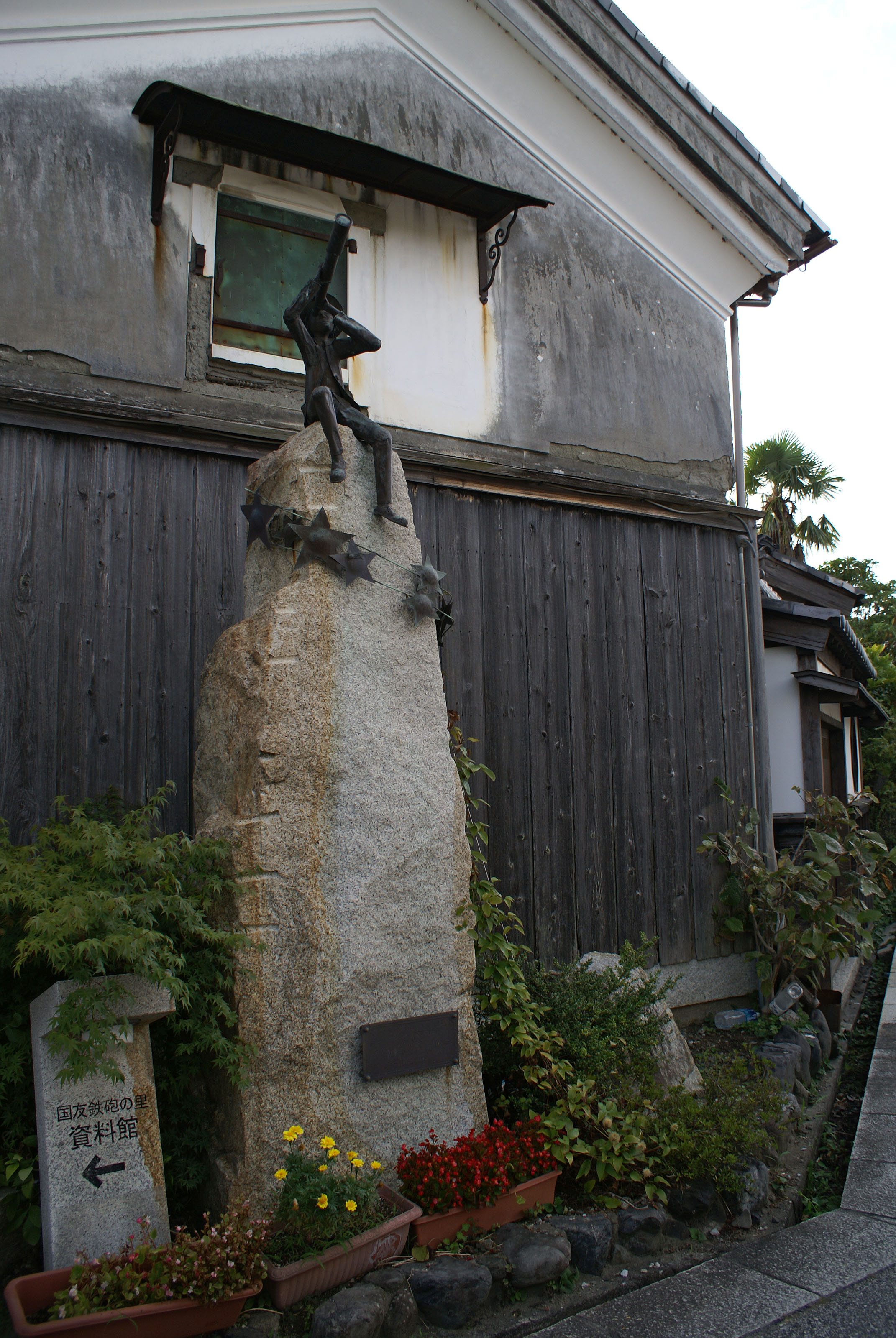 Scenery of the Kunitomo in Nagahama, Shiga, Japan